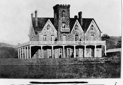 John Marsh House ca. 1856. Contra Costa County, California Photo shows house as completed in 1856. The stone tower was demolished by an 1868 earthquake, and replaced with a wooden tower.